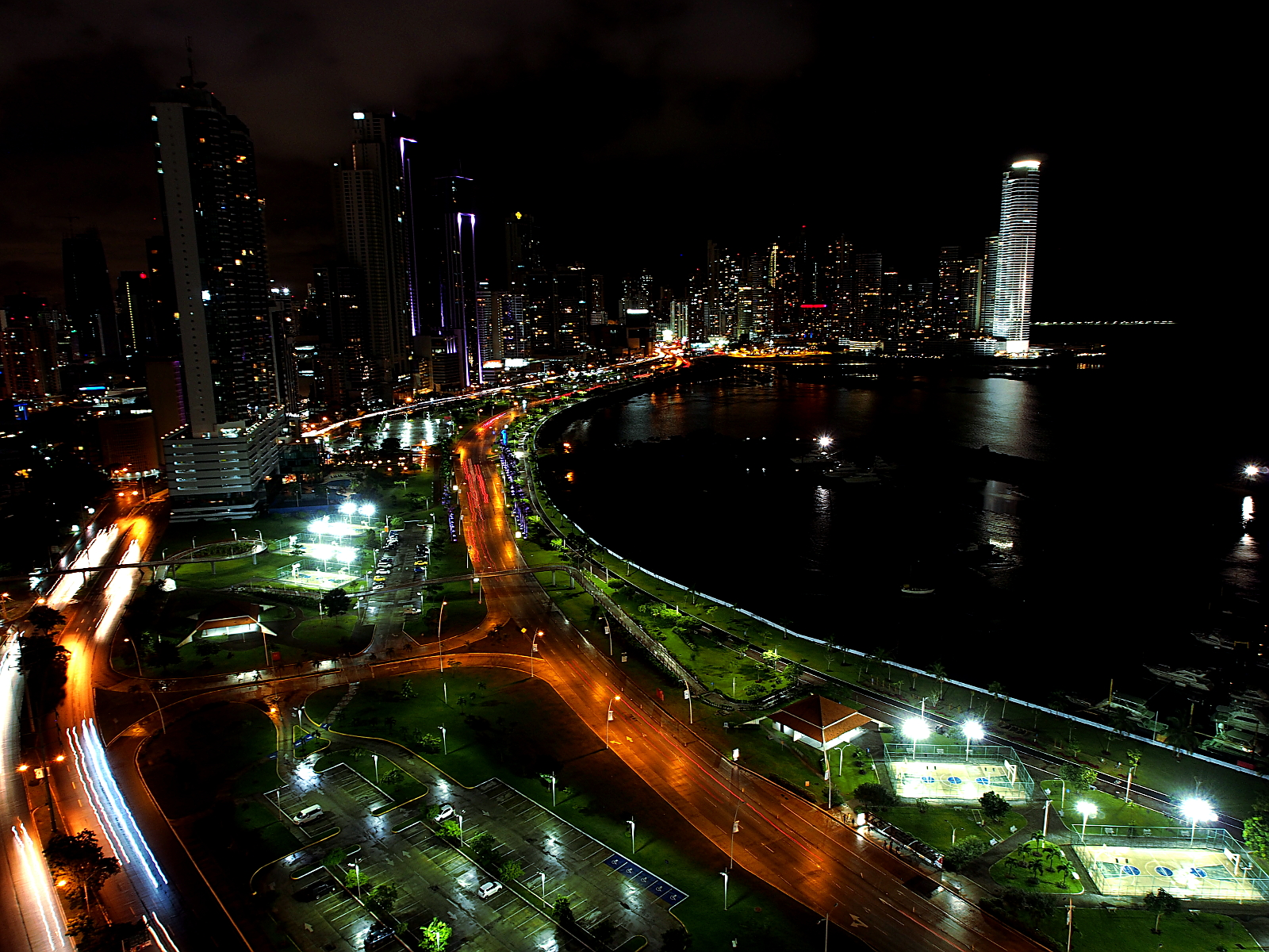 Panama City at night